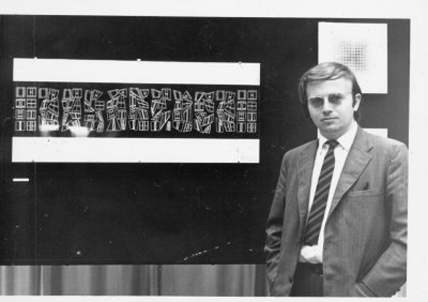 During one of exibitions in the '70.